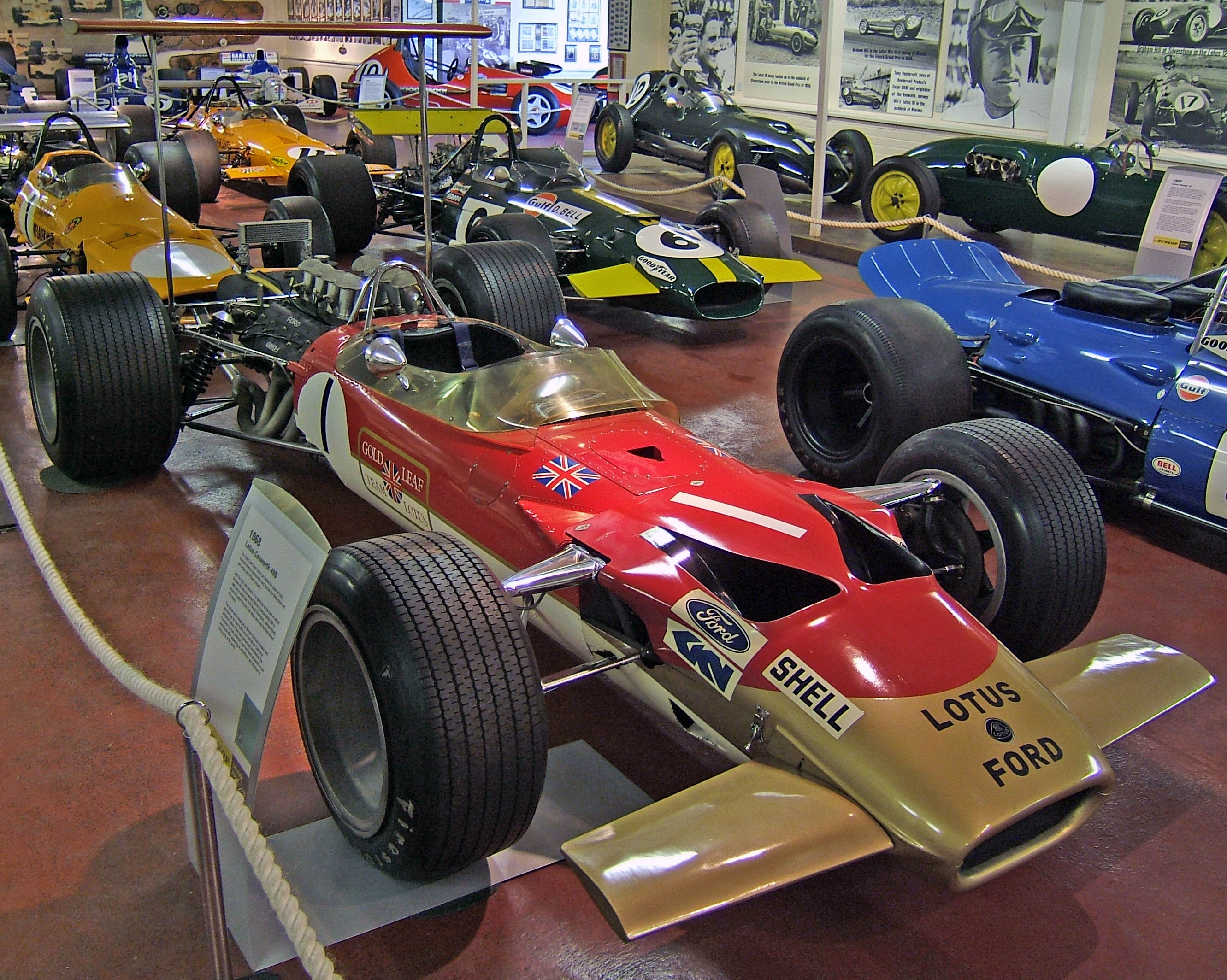 A Lotus 49B, sporting the high rear-wing trialled and them banned in early 1969. In the Donington Grand Prix Collection museum, Leics., UK